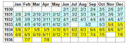 Grid showing volume number/issue number of Wonder Stories. The color coding indicates the editor, as follows: blue: David Lasser yellow: Charles Hornig